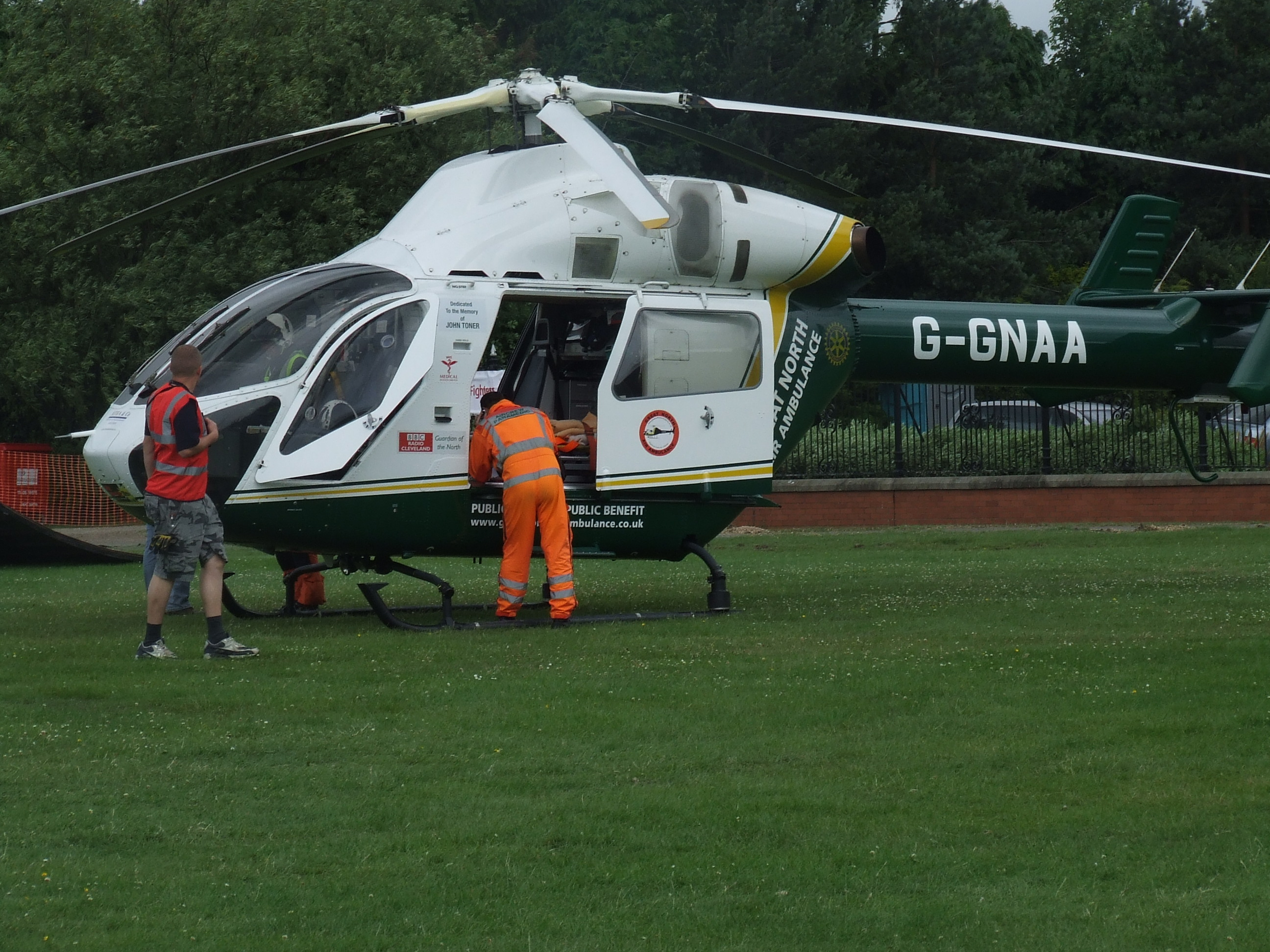 Great North Air Ambulance - Teesside